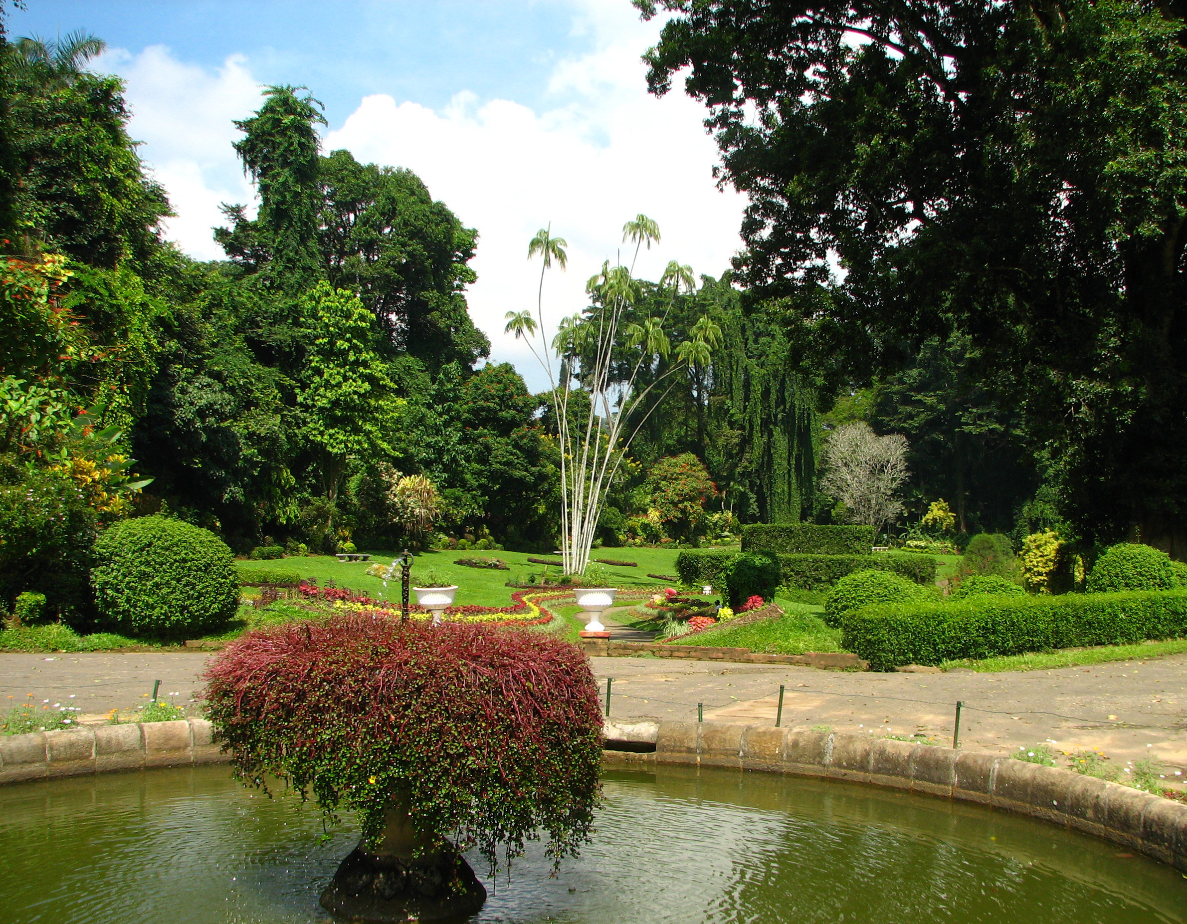 A typical manicured, but lush scene from the Kandy Botanical Garden.